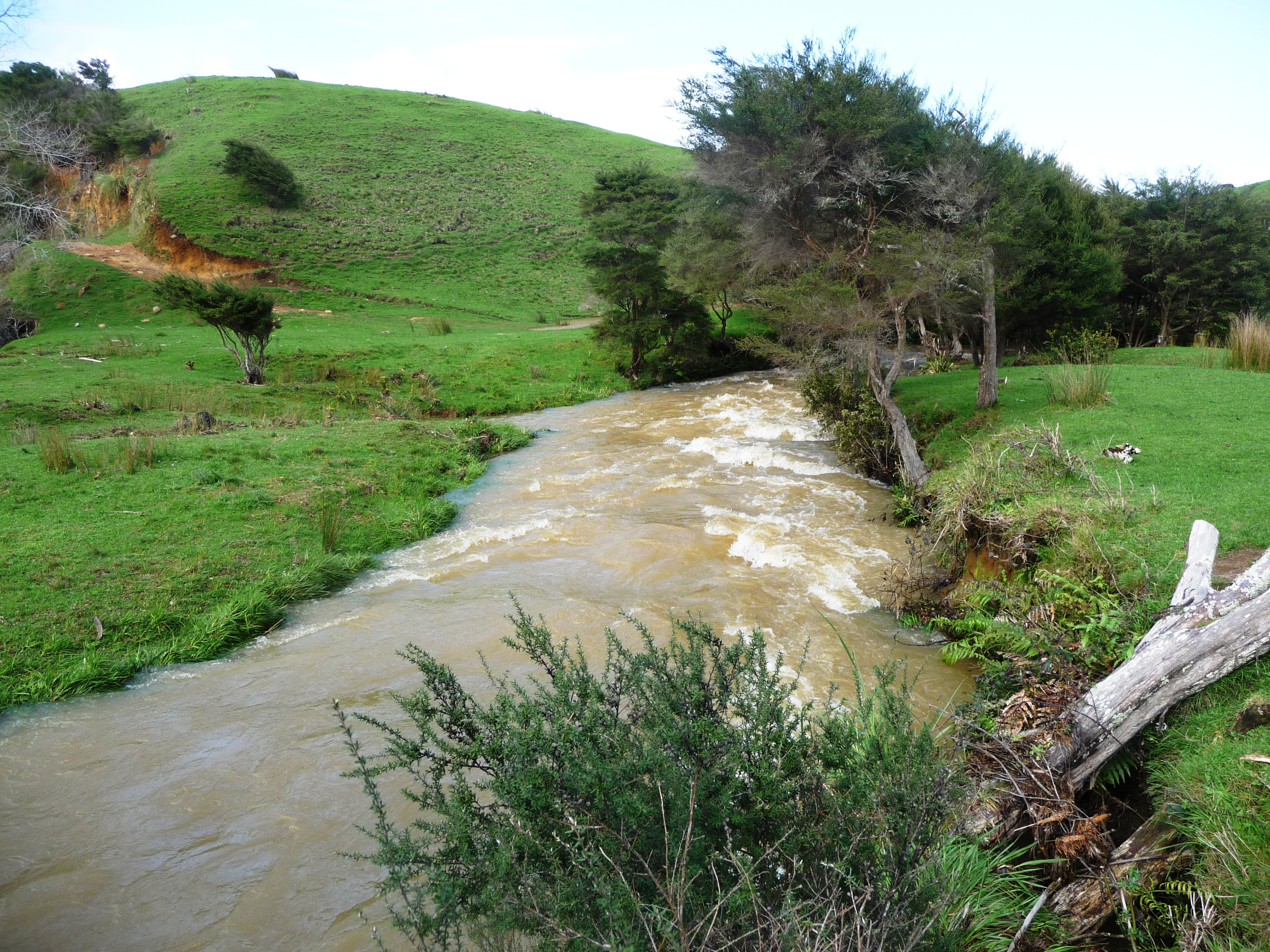 before planting and fencing started to clean the river